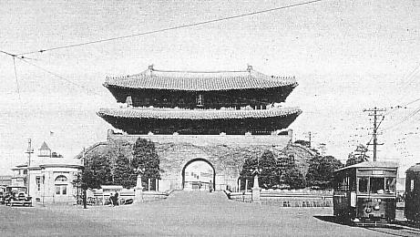 Nandaimon in the Japanese Period